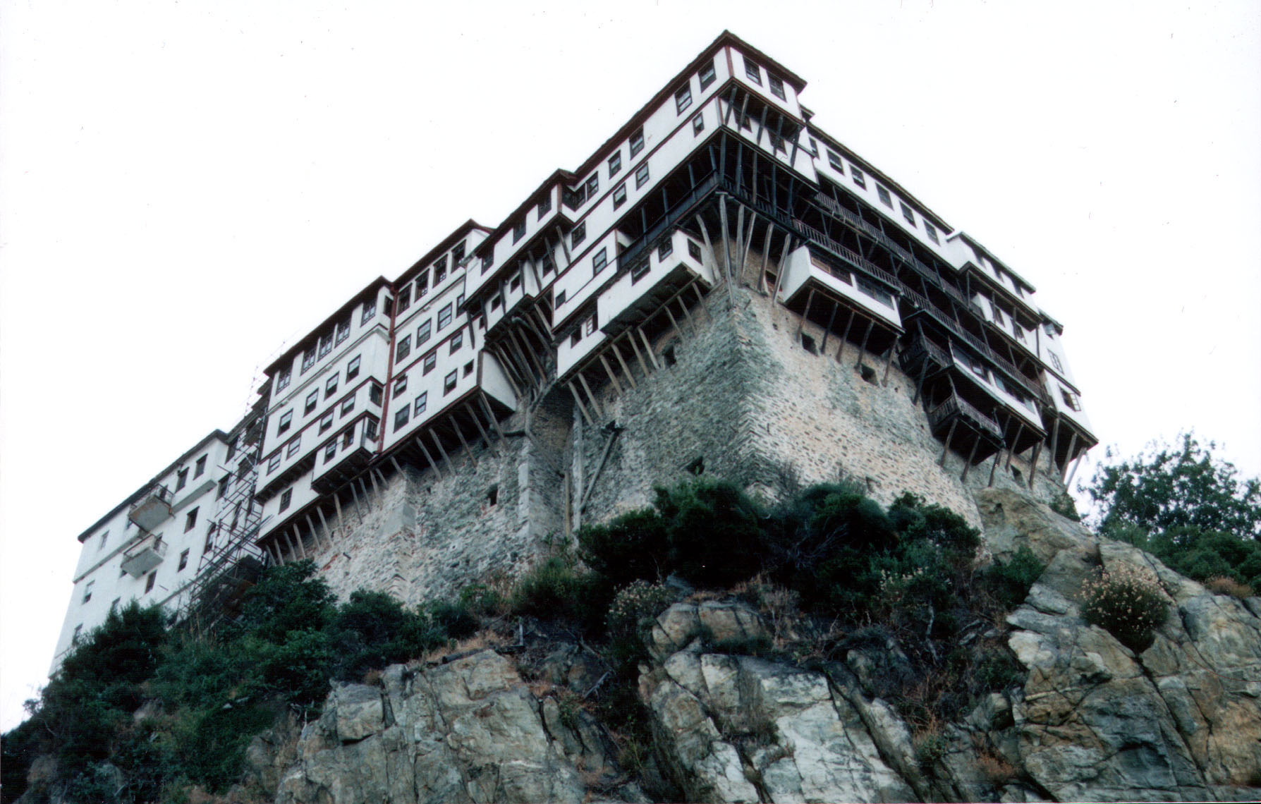 Agiou Dionysiou monastery